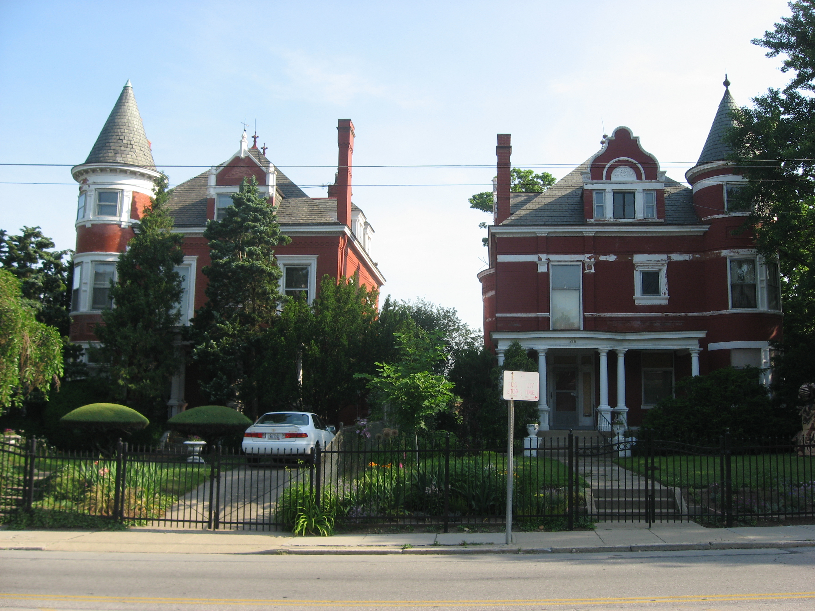 The Pfleger Family Houses, located at 216 and 218 Erkenbrecker Avenue in Cincinnati, Ohio, United States. Built in 1897, the Queen Anne houses are listed on the National Register of Historic Places.